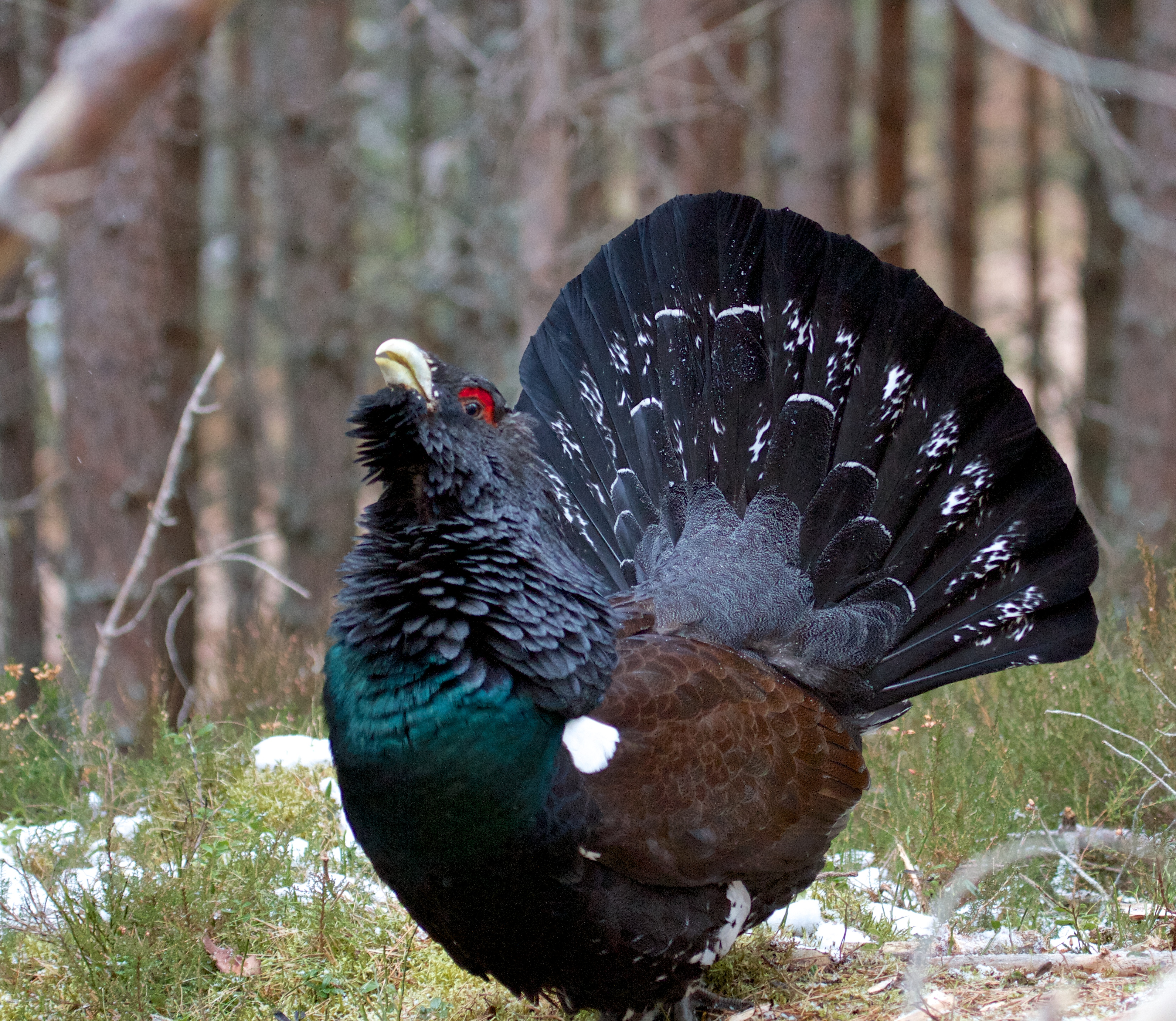 Glenfeshie - rogue male Caper which attacks anyone in sight. It chased us down the access track to make sure we'd left.